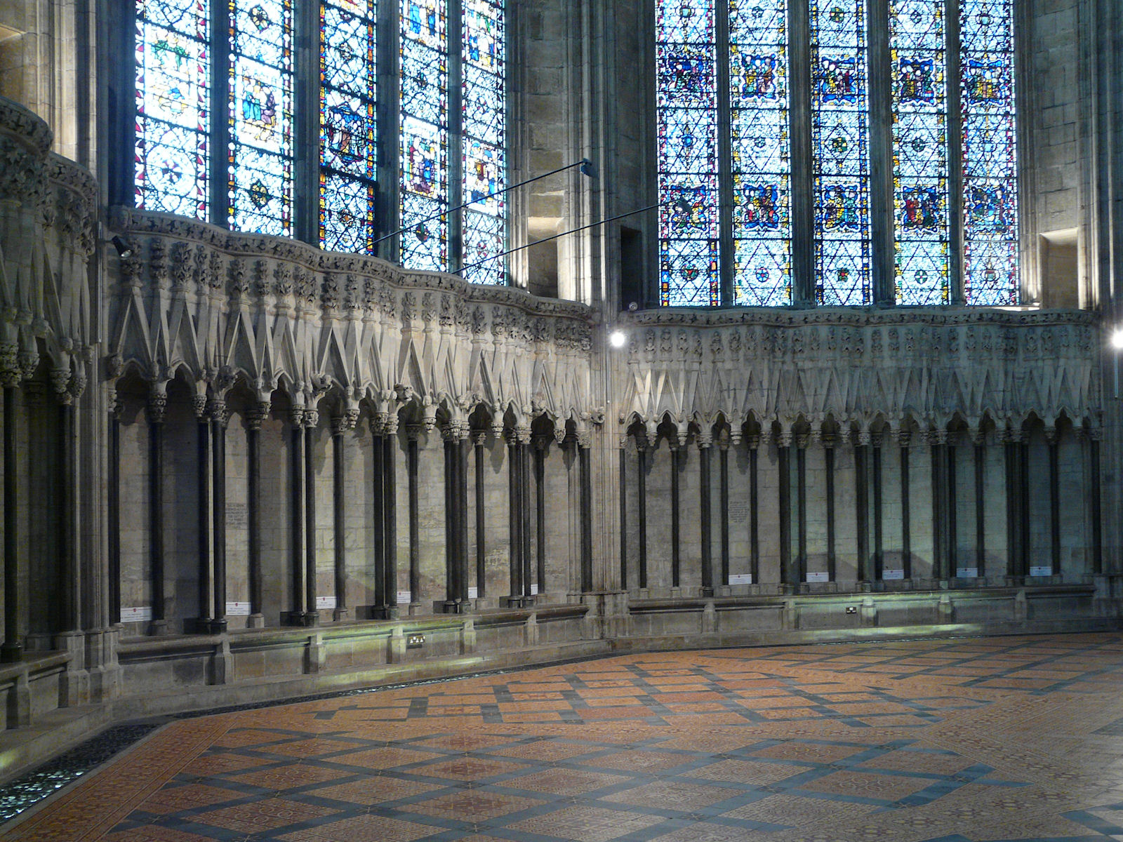 Seatings in the Chapter House of York Minster, York, England